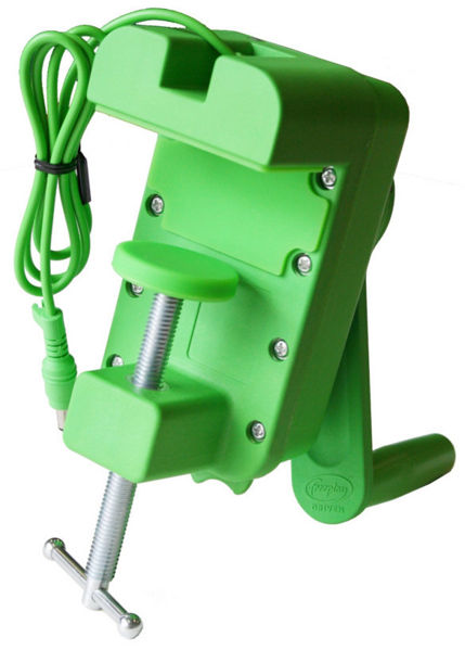 Freeplay Energy's Clamp Charger design for the OLPC XO-1 laptop